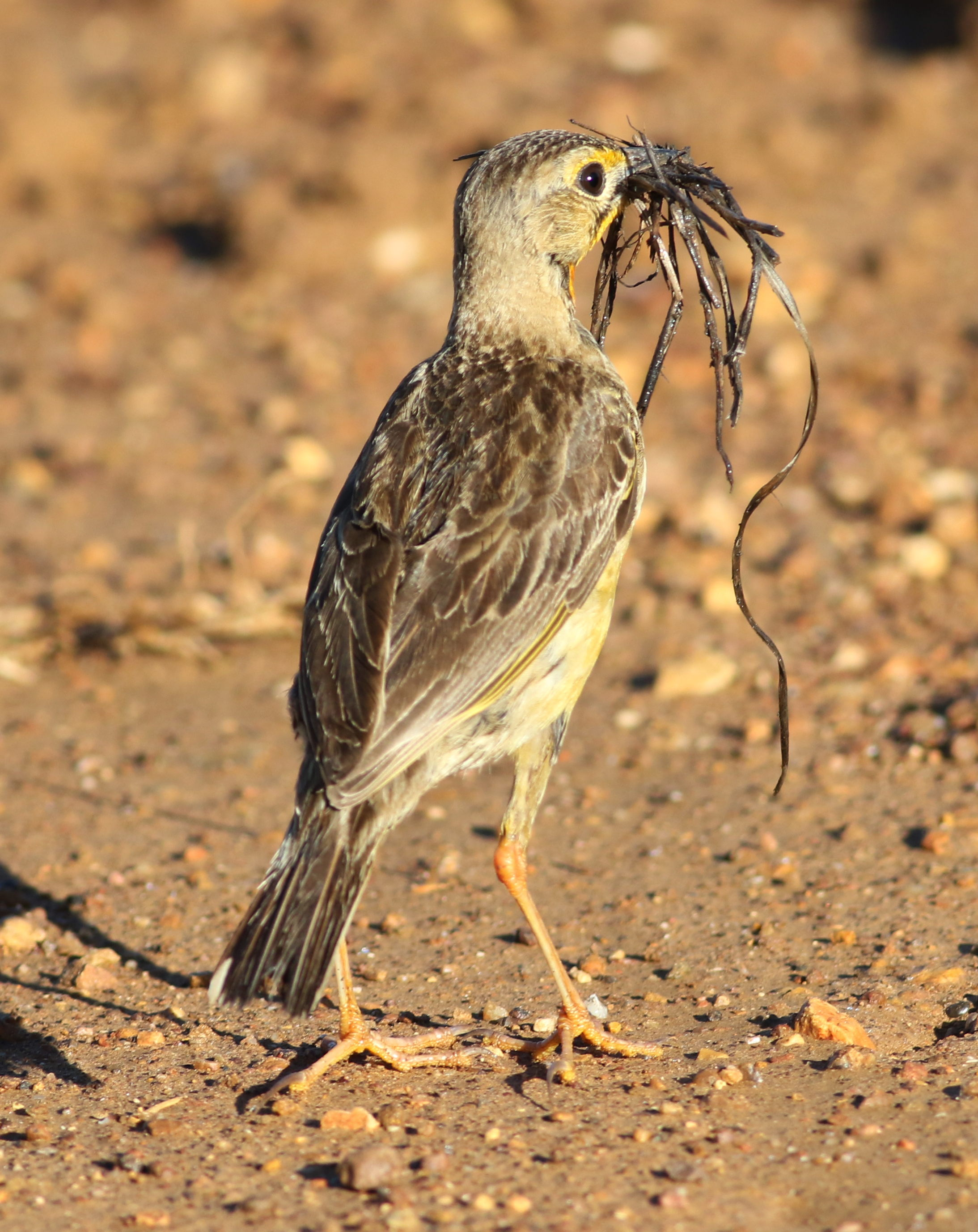 Cape Longclaw or Orange-throated Longclaw, Macronyx capensis carrying nesting material at Suikerbosrand Nature Reserve, South Africa